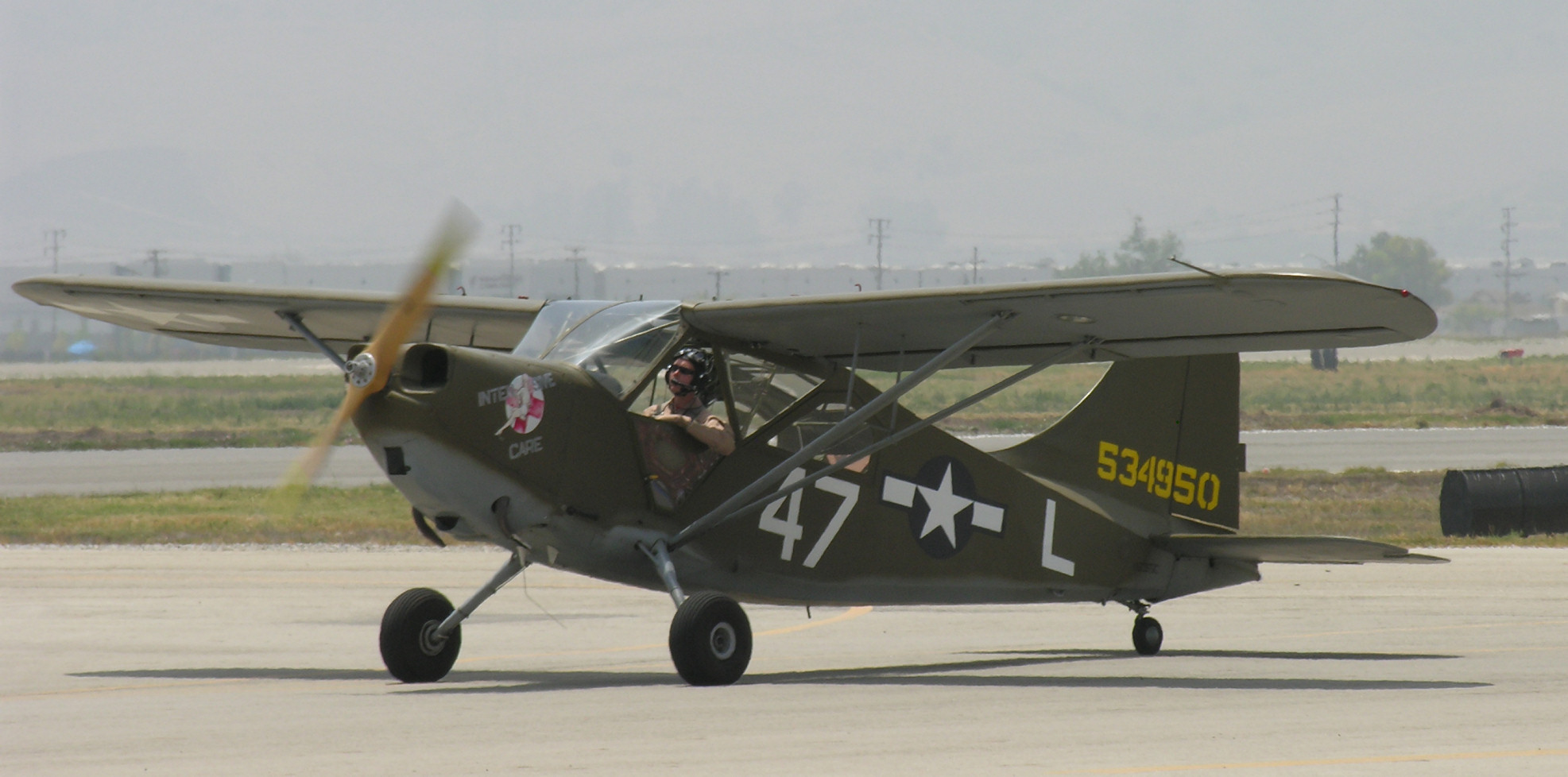 Stinson L-5, Chino, California